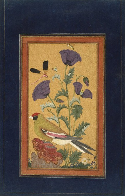 This painting depicts elements of nature, all of them inspired by real species but rendered in a fanciful palette of intense colors. The bird perches on a fabulous rock that comes straight out of Persian painting traditions. The use of jewel tones in the painting suggests that it was made in the southern Indian region known as the Deccan, possibly in the state of Golconda. Both the poppy and the dragonfly show up in many Deccani paintings as emblems of the seasons. Bird and flower subjects were not terribly popular in either India or Iran before the sixteenth century, when Mughal emperors commissioned botanical and ornithological studies from their court artists. This painting departs from the Mughal type with its surreal colors and its combination of species; the latter aspect is closer to Persian paintings that were in vogue in the early seventeenth century, especially those made by the artist Riza ‘Abbasi.